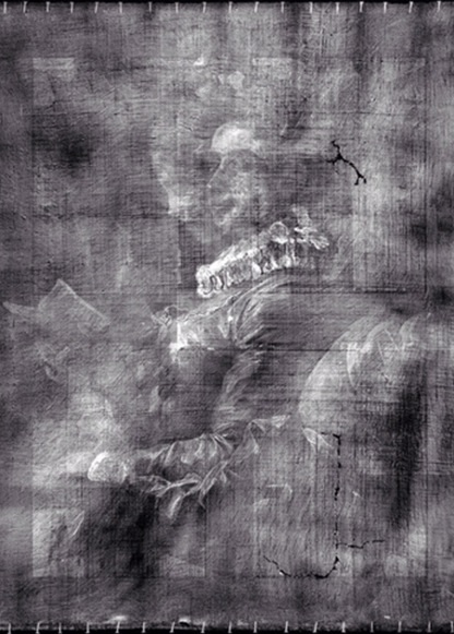 Young girl reading, xray